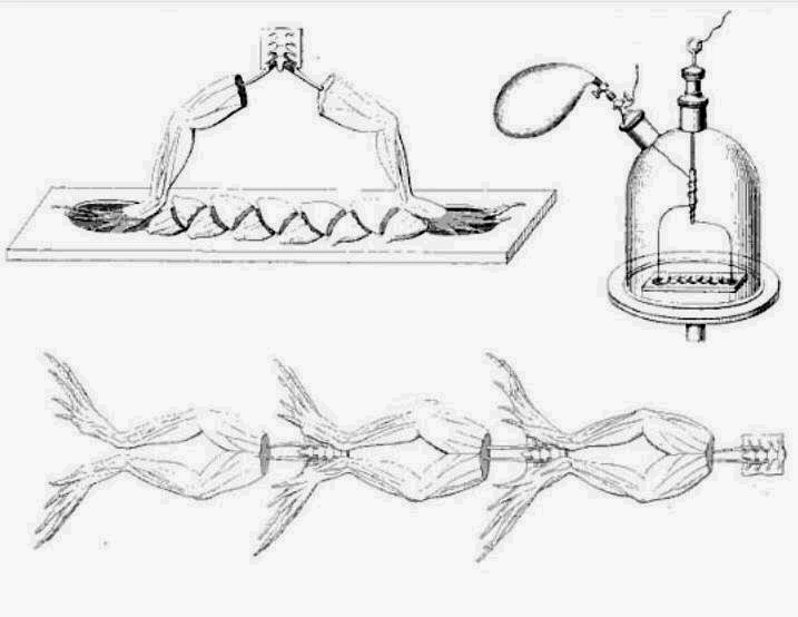 Matteucci's frog battery. Some of the figures have been trimmed out of the original and the contrast has been adjusted for better visibility.